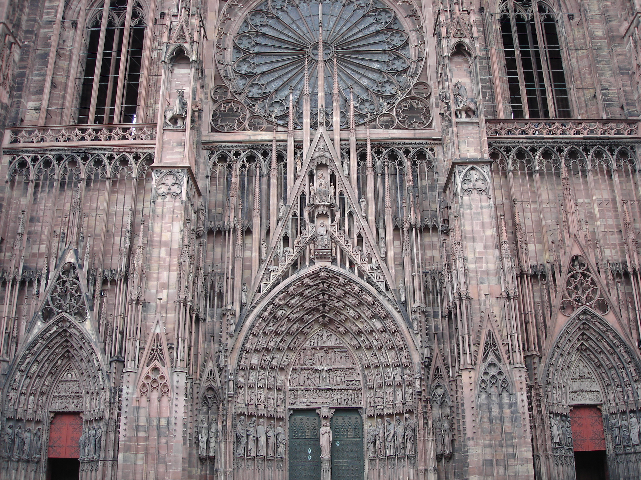 West façade (frontispiece) of the cathedral Notre-Dame de Strasbourg